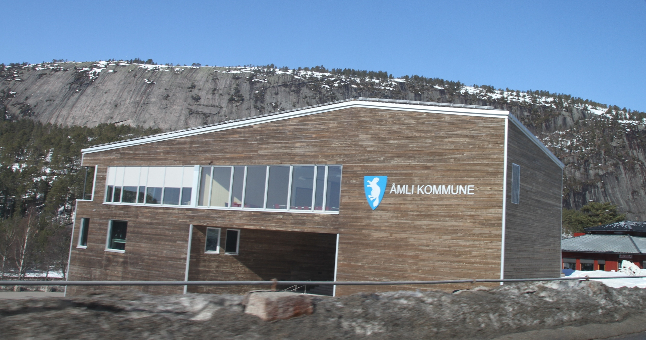 Image from the central part of Åmli village, the center of Åmli municipality, Aust-Agder county - southeast Norway.